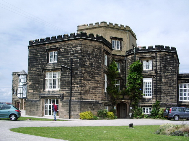 Leasowe Castle